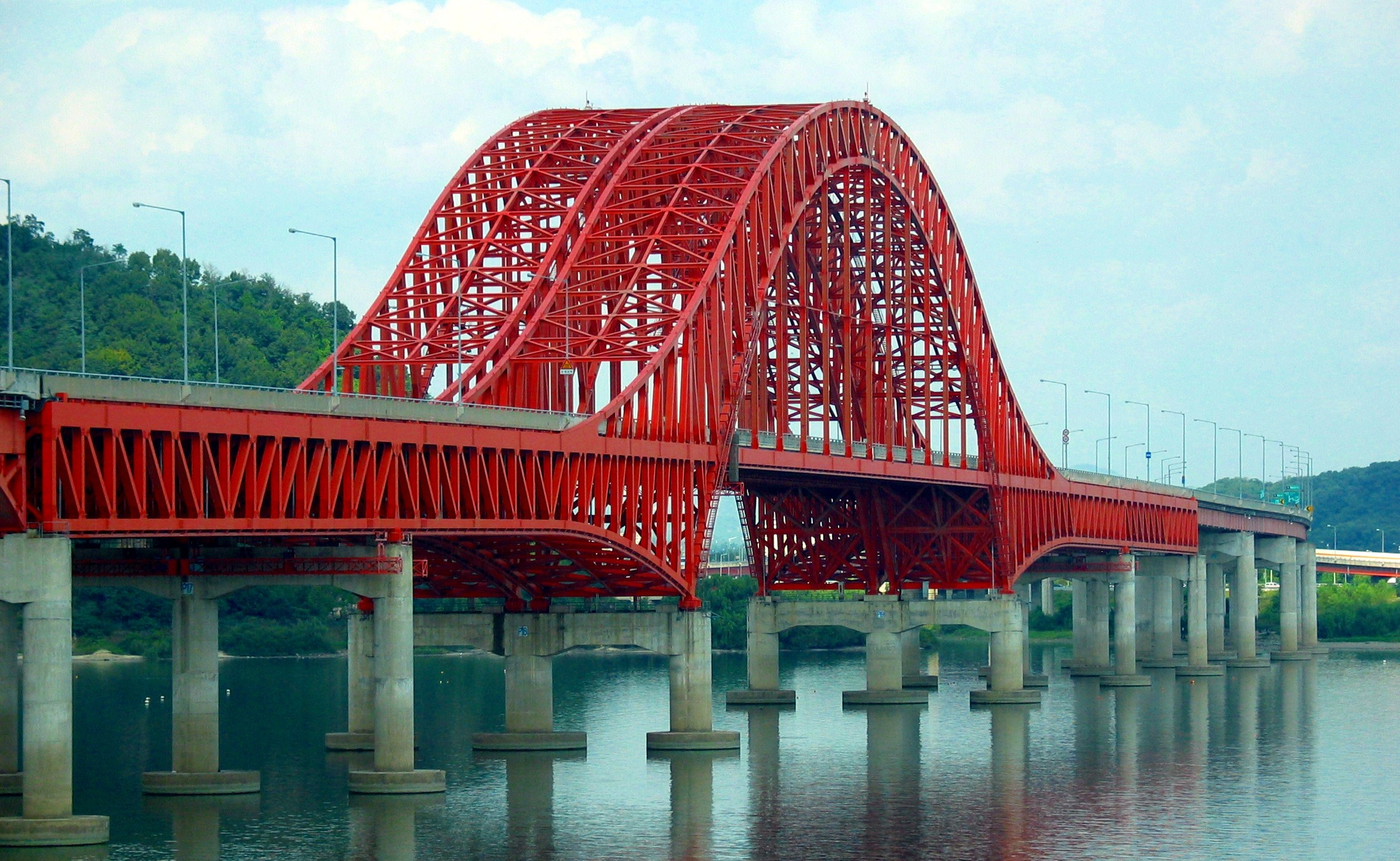 Bridge. South Korea. If you use this for commercial purposes please consider donating $10 or more to the Wood River Animal Shelter. Thank You!